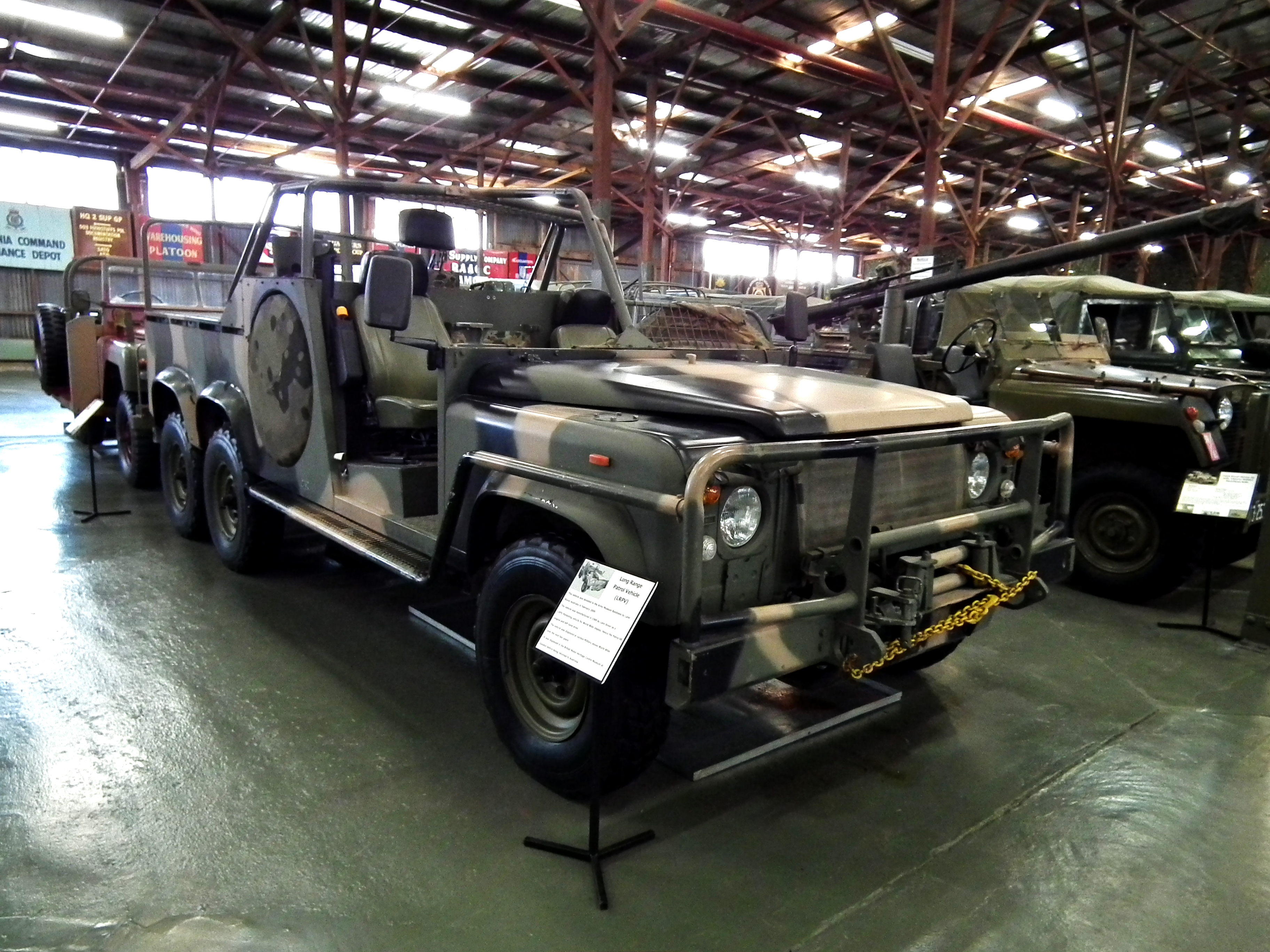 1989 Land Rover Long Range Patrol Vehicle (LRPV). Taken at the Australian Army History Unit museum in Bandiana, Victoria.